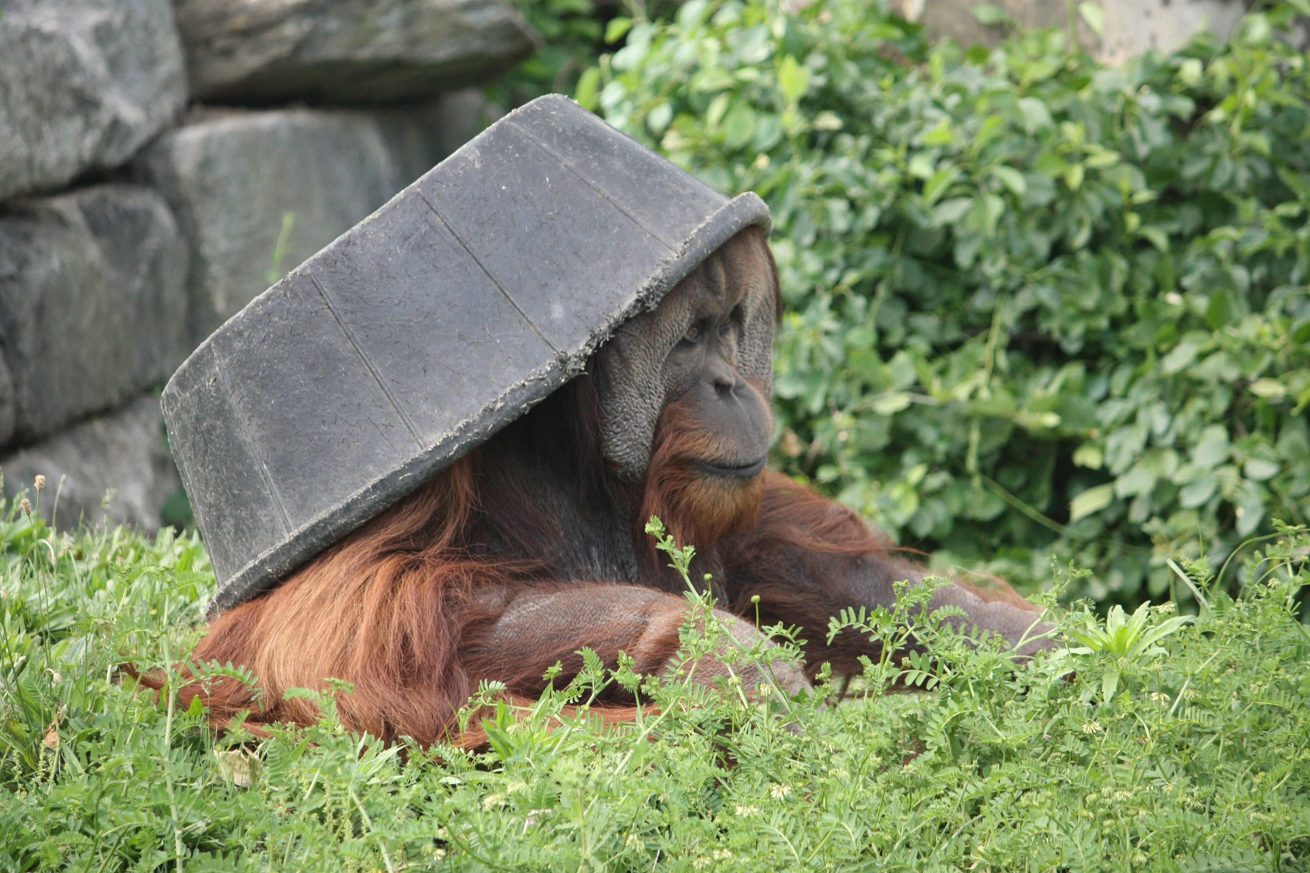 Sumatran Orangutan (Pongo abelii), "wearing" a plastic tub. Philadelphia Zoo, Philadelphia, Pennsylvania.